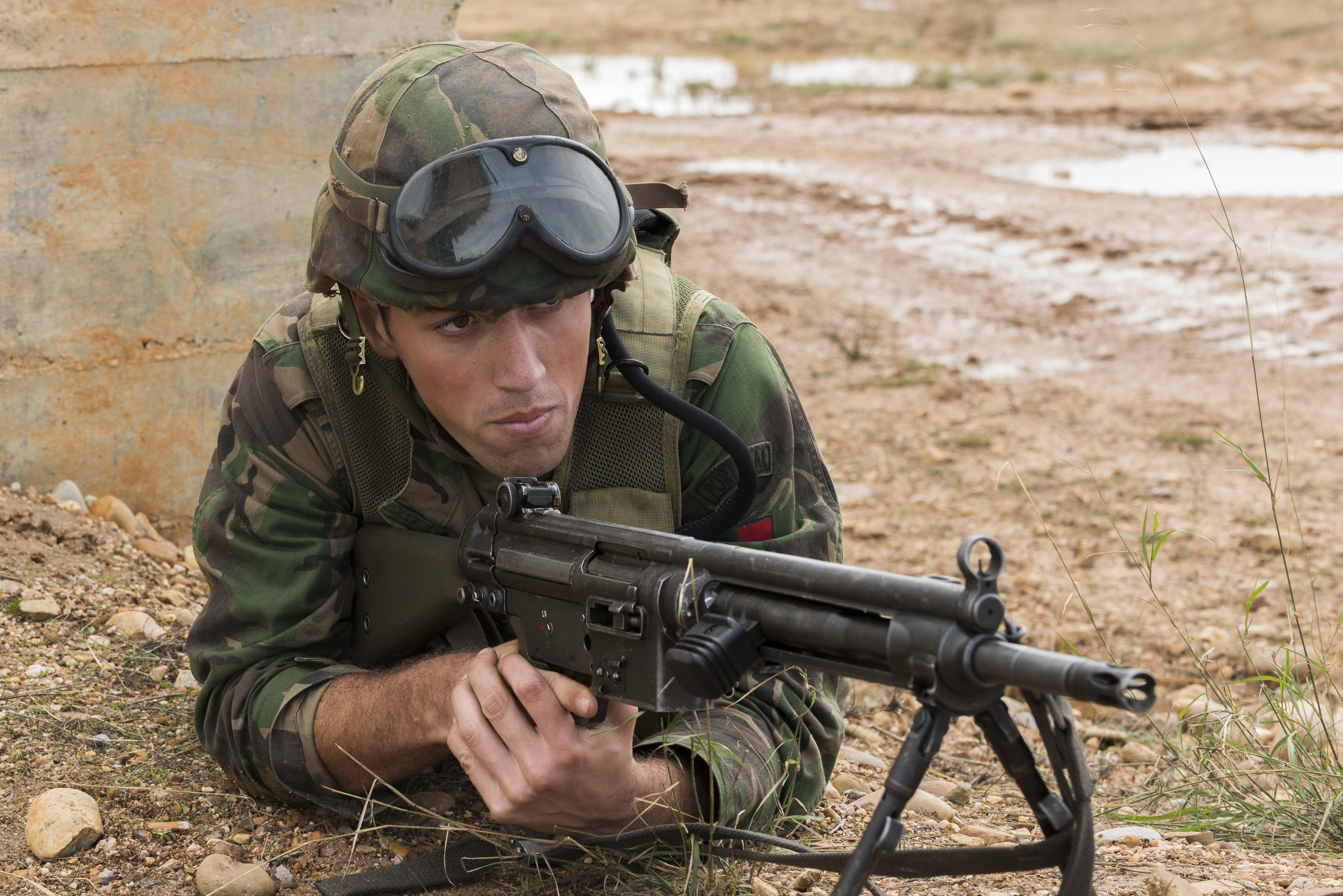 Portuguese military doing an advance to contact in Santa Margarida, Portugal, during JOINTEX 15 as part of NATO’s exercise TRIDENT JUNCTURE 15 on October 28, 2015 Photo: Sgt Sebastien Frechette, PA Technician VL06-2015-379-40